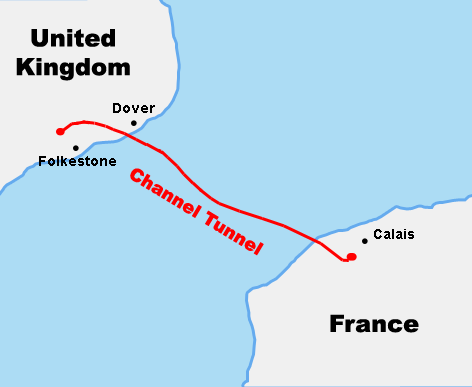 The course of the Channel Tunnel (English)